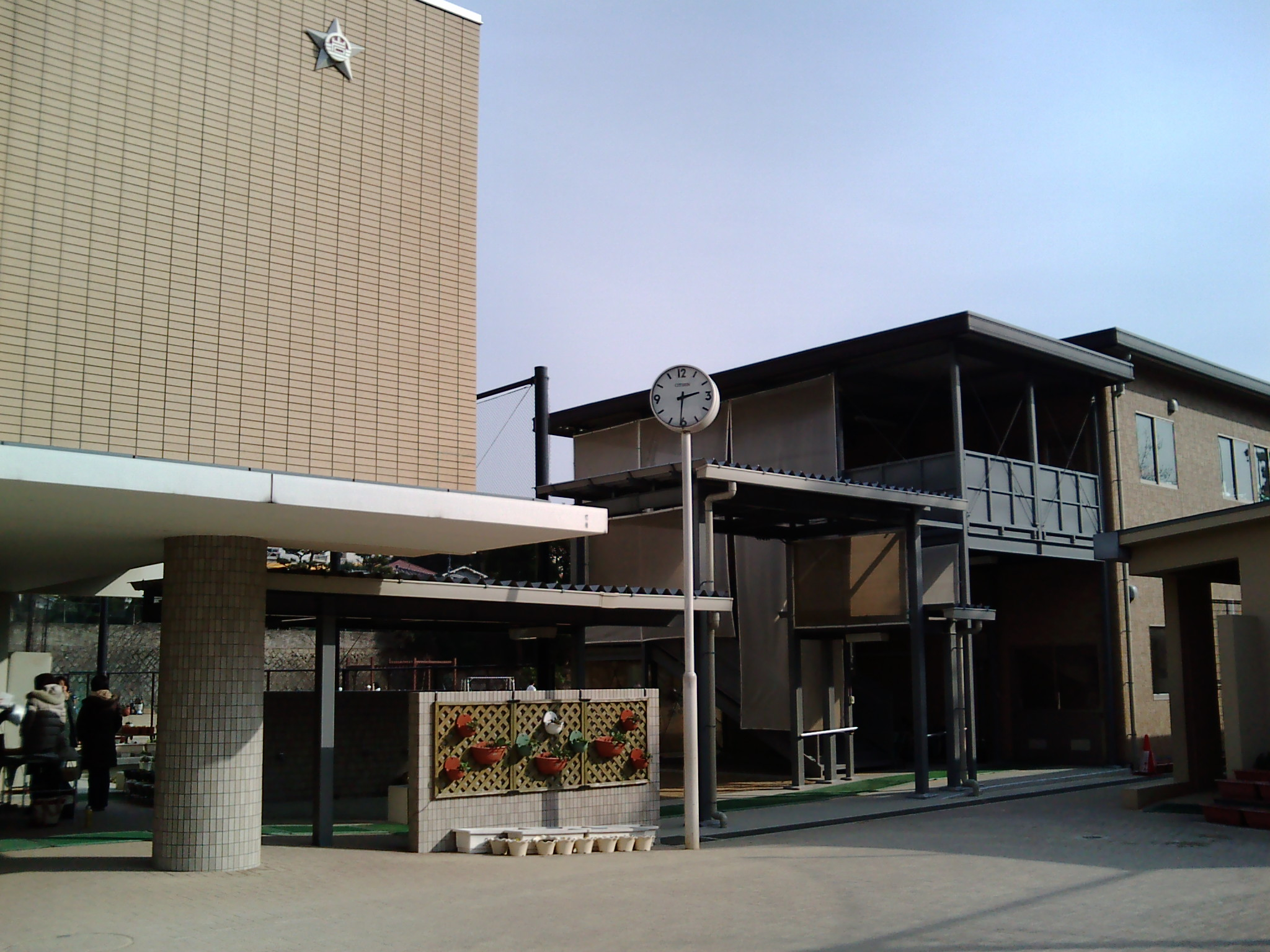 The temporary building of Ashiya Iwazono Elementary School